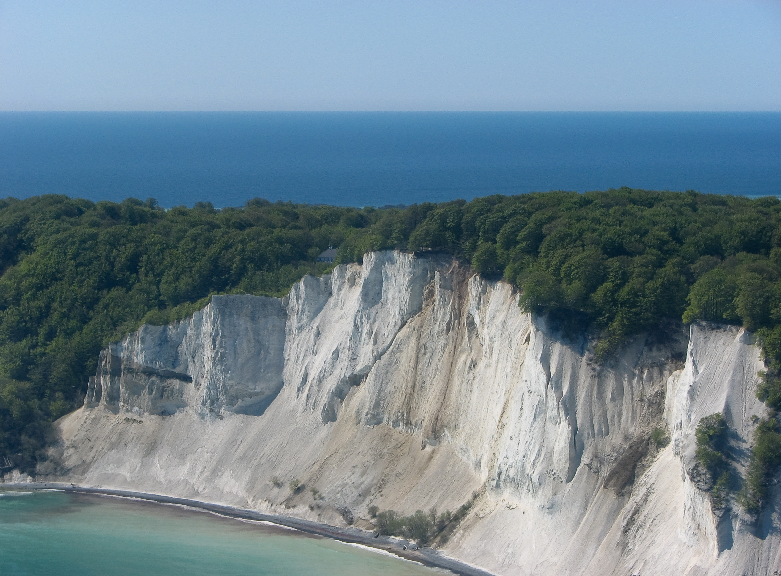 Dronningestolen ("The Queen's Chair"), with its 128 metres the tallest point of Møns Klint in Denmark.